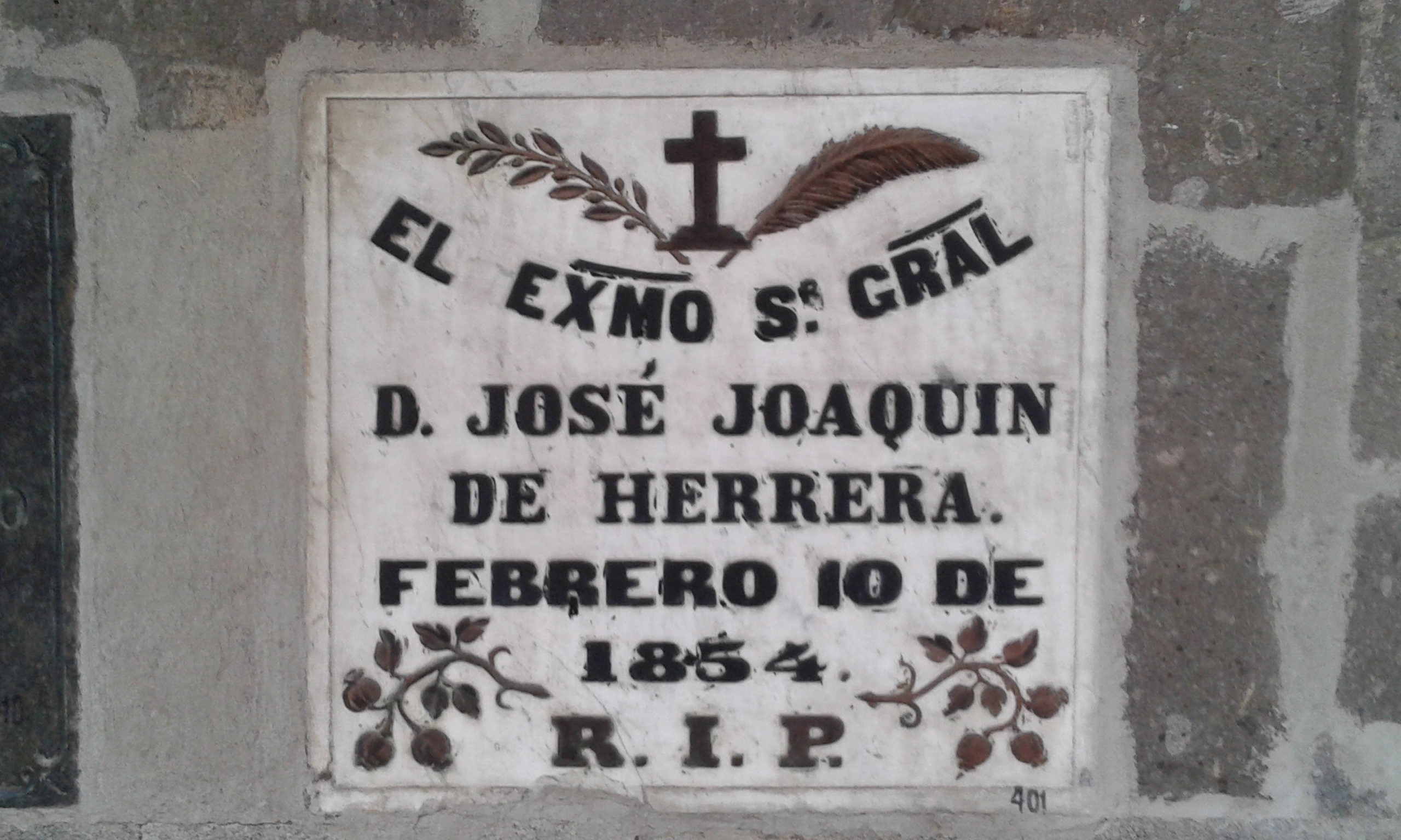 Nicho de José Joaquín de Herrera en el Panteón de San Fernando